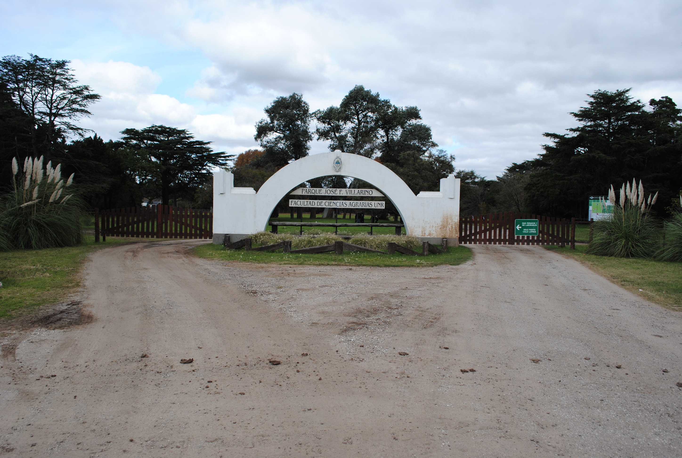 Parque Villarino main entrance. Zavalla, Santa Fe Province.